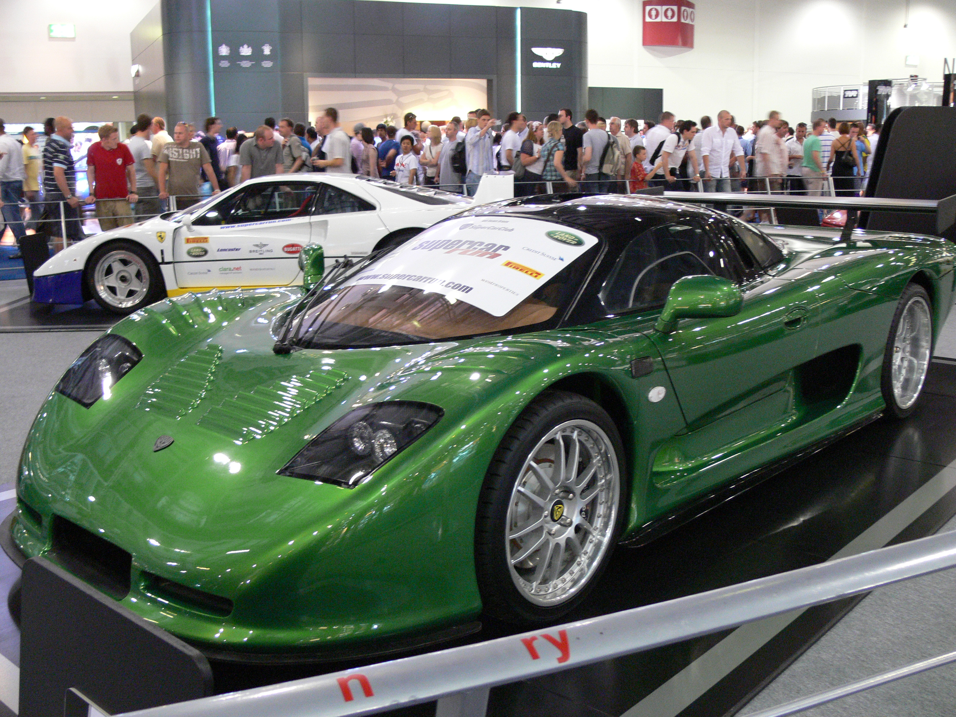 Pictures taken at the British Motor Show 2006, Excel Centre, LondonP1060359.JPG